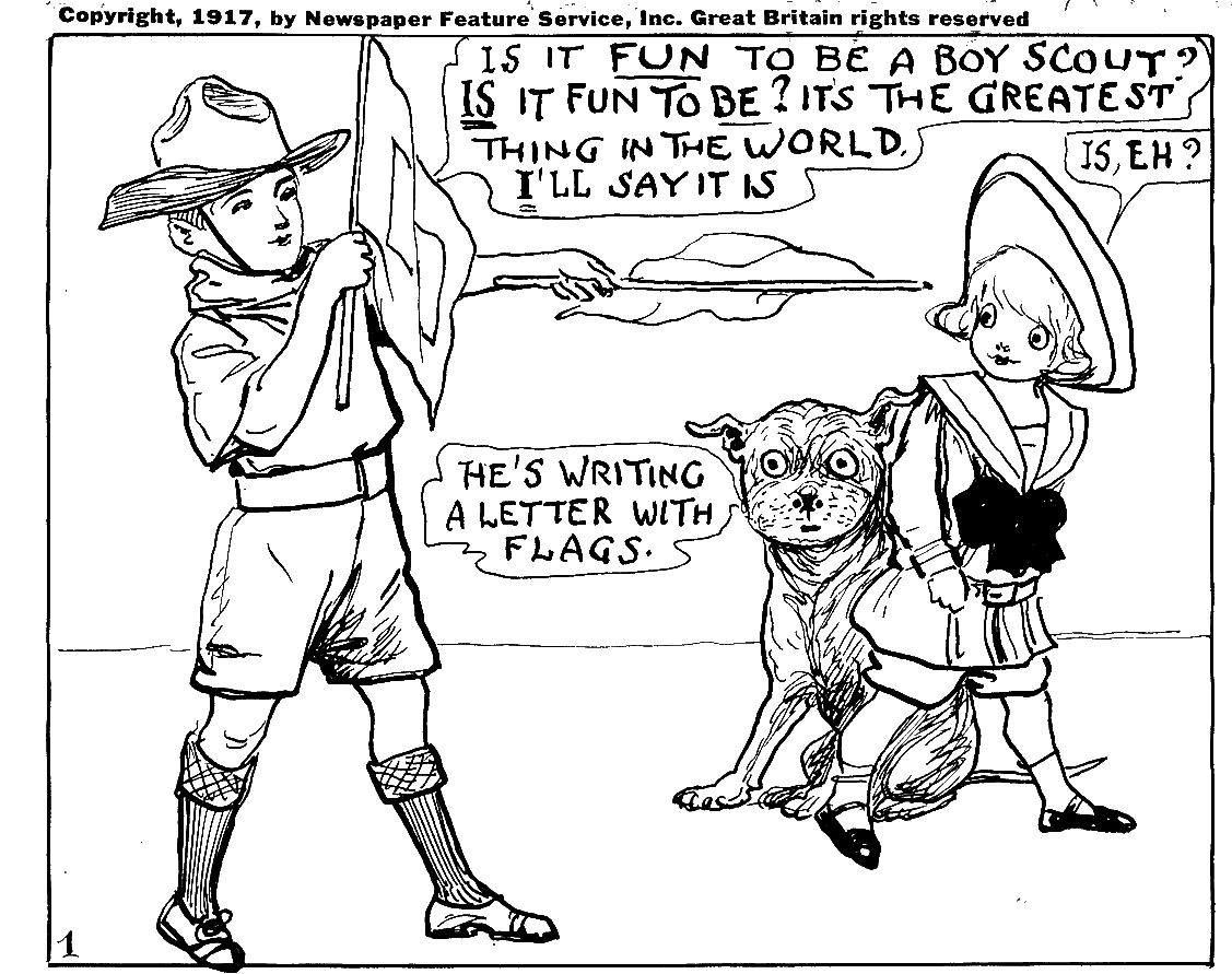 [Buster Brown]. Is it fun to be a Boy Scout? Is it fun to be? It's the greatest thing in the world. I'll say it is